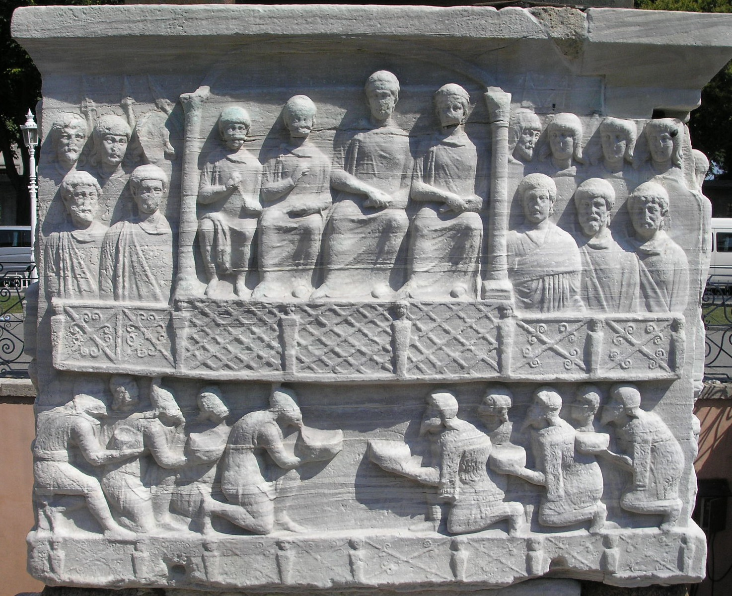 Details of the base of the Obelisk of Thutmose III, detailing the Eastern Roman Emperor surrounded by the court.